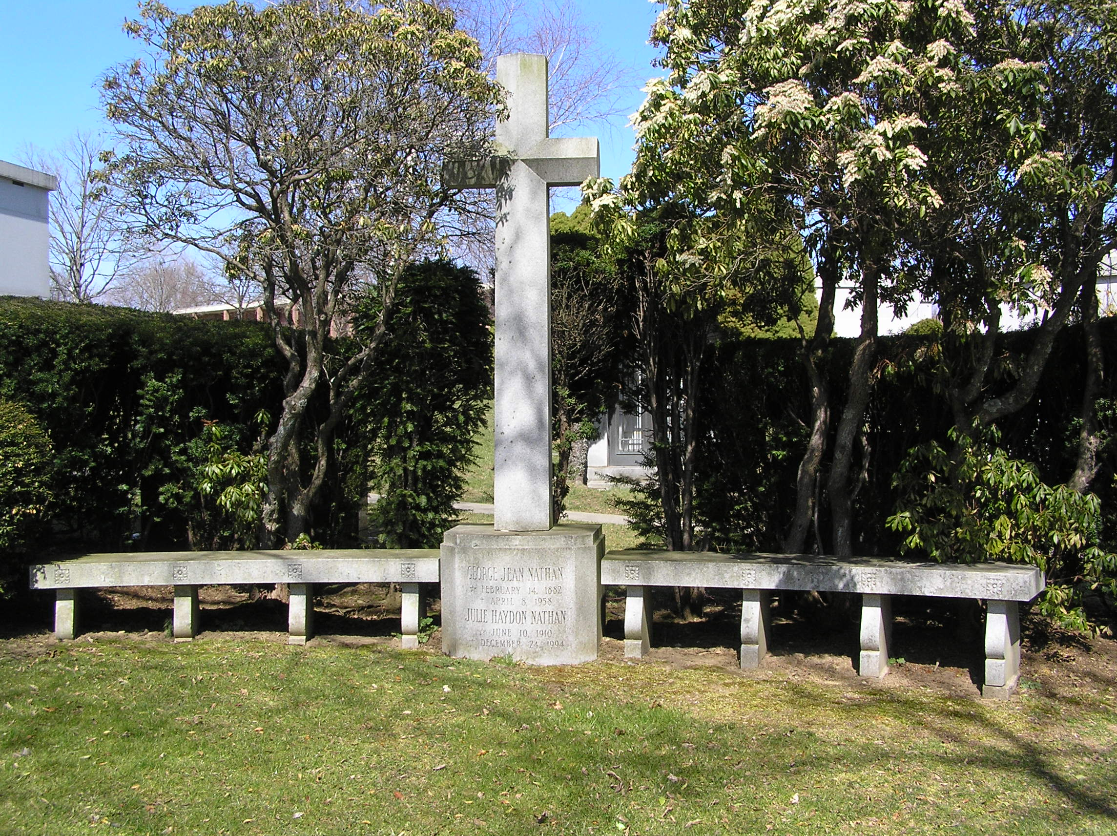 I took this photograph of the grave of Julie Haydon in Gate of Heaven Cemetery on April 9, 2007. GNU Free Documentation License